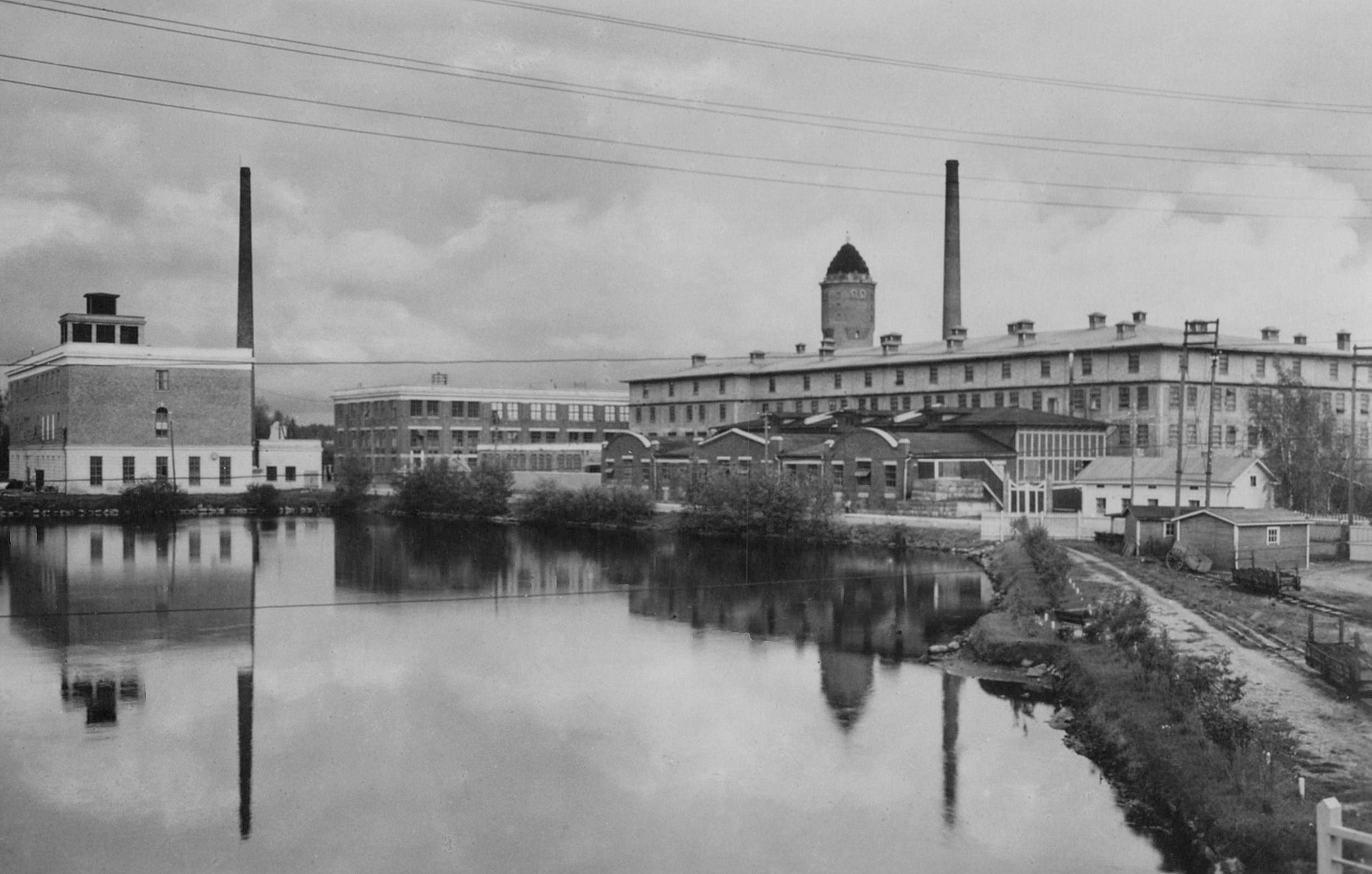 Veljekset Åström (i.e. Brothers Åström) leather factories in Oulu before 1940's. Factory was closed in 1960's.